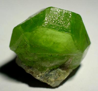 Forsterite, Olivine Locality: Suppat, Northwest Frontier Province, Pakistan Size: thumbnail, 2.3 x 1.9 x 1.3 cm Forsterite (Peridot) Lovely, equant crystal of Peridot with excellent color and habit. The faces attractively vary from clear and lustrous to frosted. Seeing the clear windows into the green depths of the crystal adds to the very nice aesthetics....truly, it has to be seen in person to be appreciated. Lastly, the LIME GREEN COLOR is TOP quality and very intense! 2.3 x 1.9 x 1.3 cm